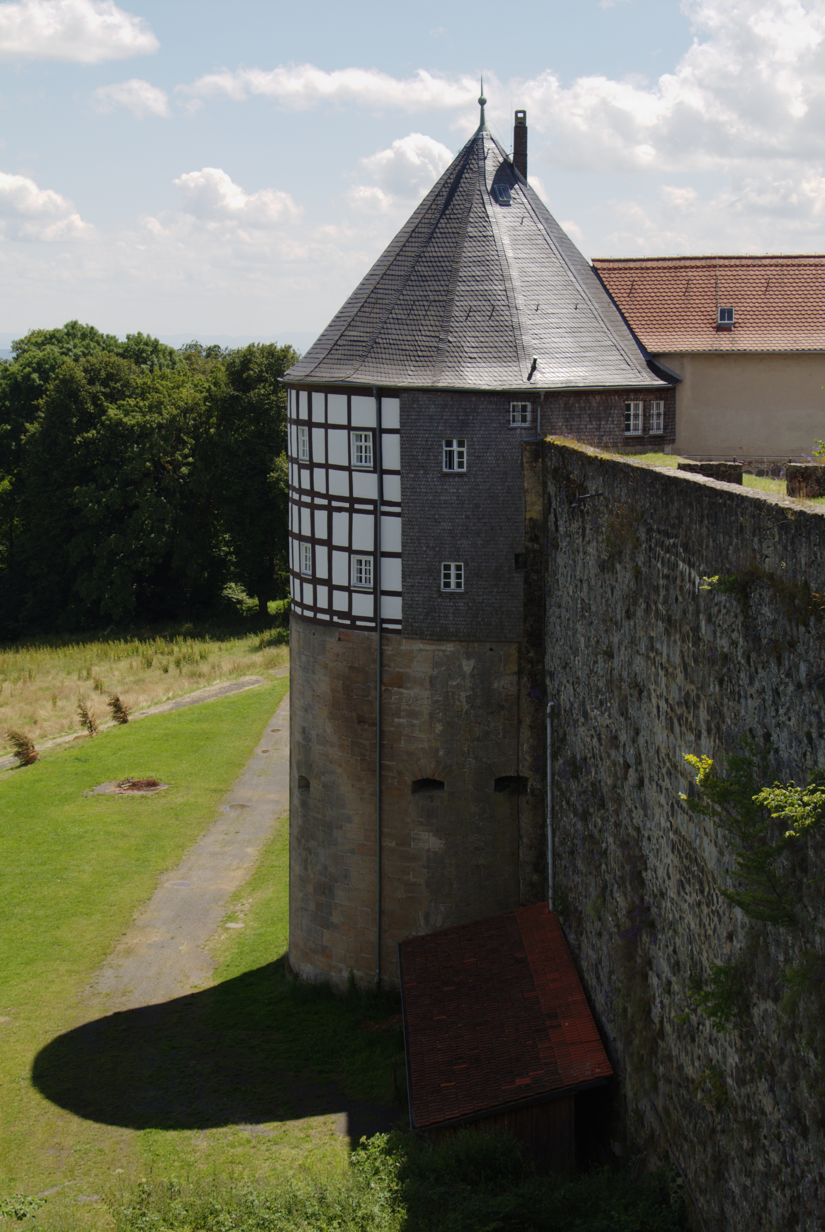 Burg Herzberg Wohnturm, Breitenbach am Herzberg, Hesse, Germany